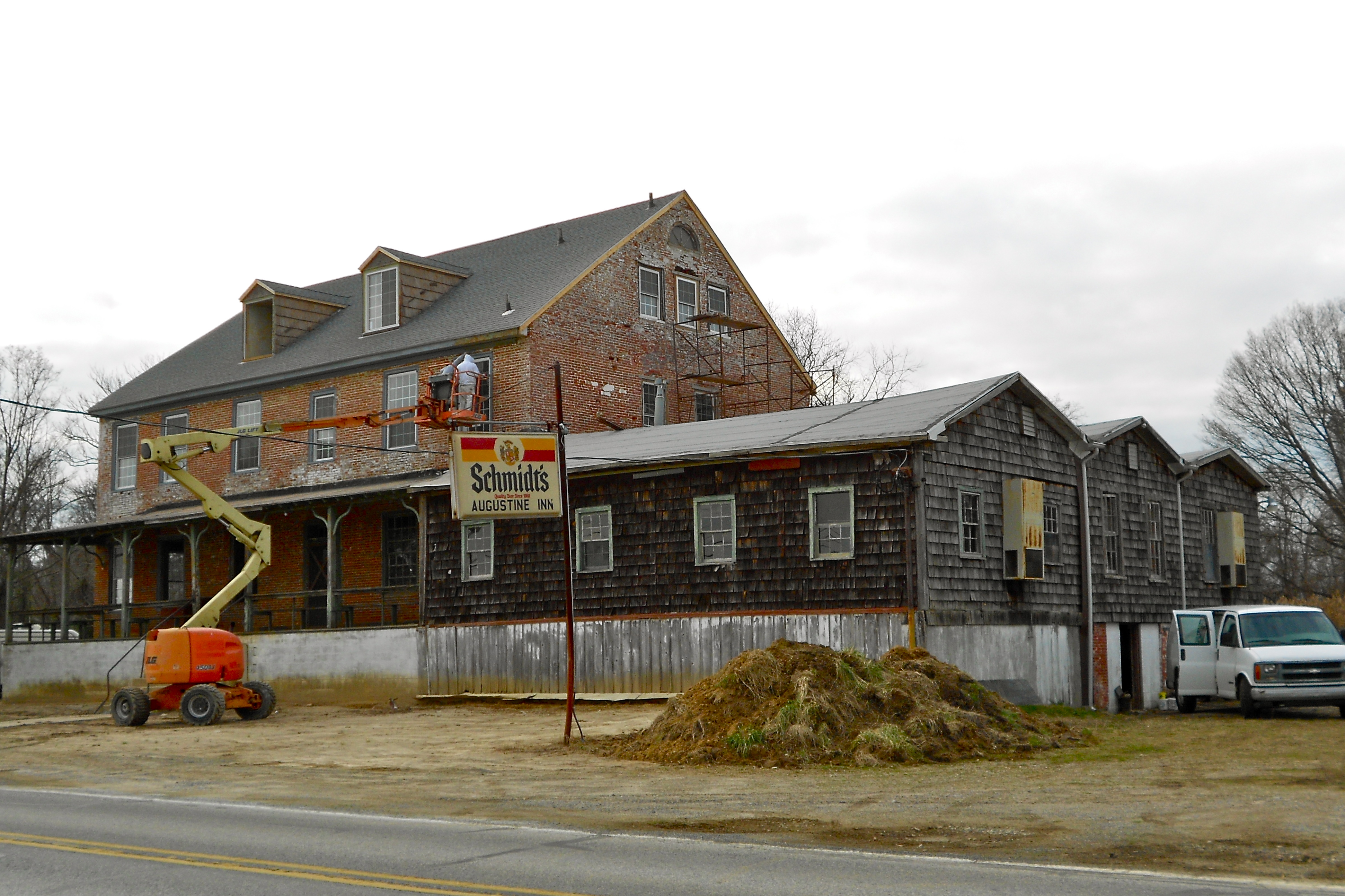 Augustine Beach Hotel on the NRHP since April 3, 1973. Just south of Port Penn on Delaware Route 9 and the beach. Port Penn, New Castle County, Delaware.